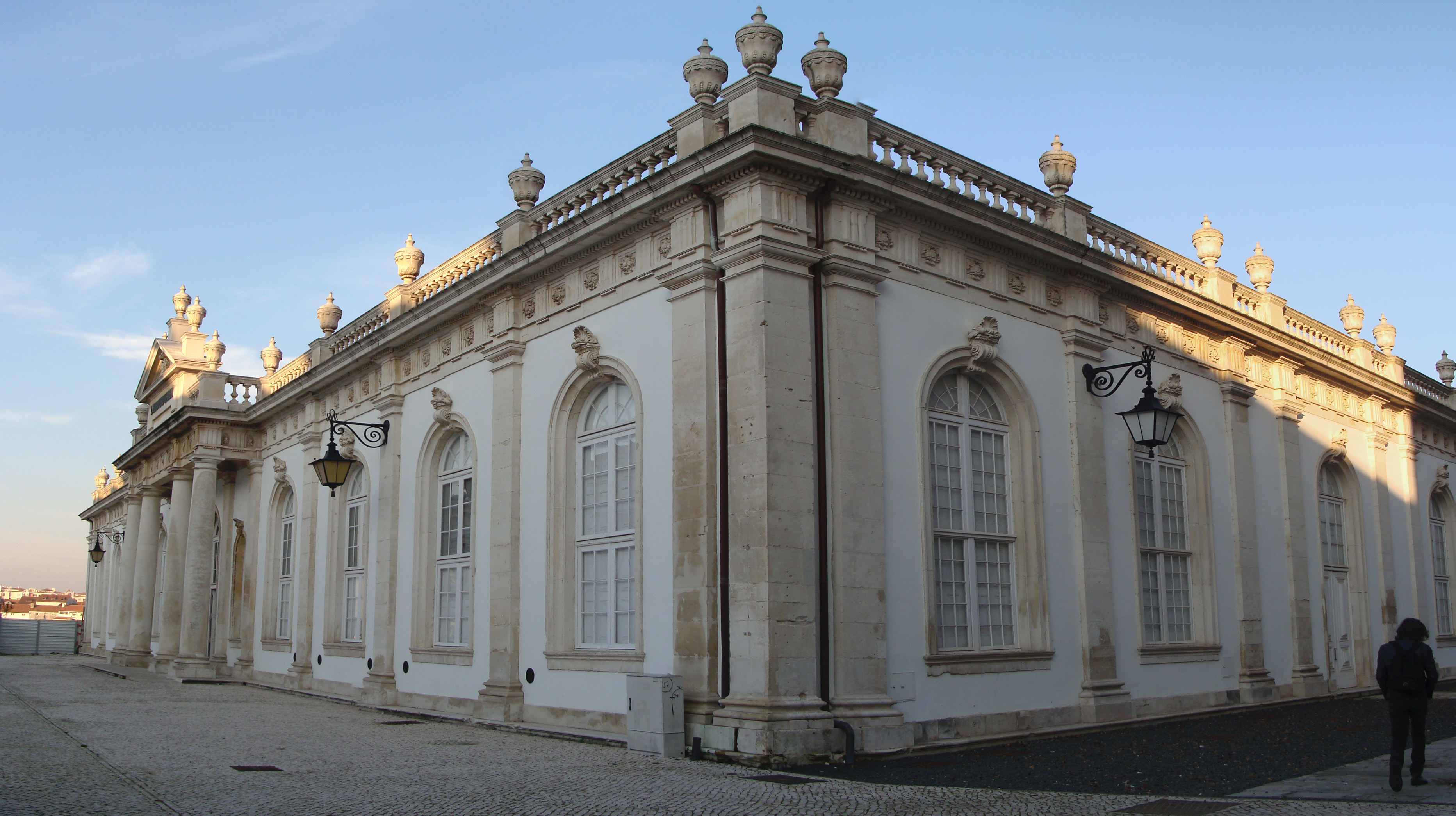 The old Chemical Engineering Department of the University of Coimbra, which is now its Science Museum. Rua dos Estudos, Coimbra, Portugal, 12/2011